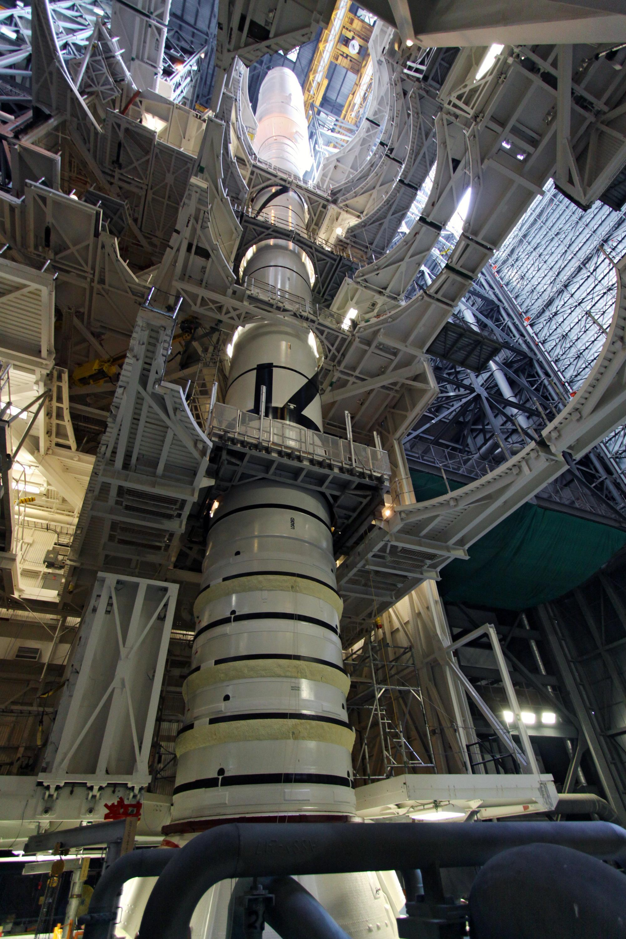 Platforms surround the Ares I-X in High Bay 3 of the Vehicle Assembly Building before it was moved to the launch pad. Closer in height to the hulking Saturn V moon rockets than the space shuttle, Ares I-X looks unlike any rocket that's ever stood at Launch Complex 39. But it blends familiar hardware from existing programs with newly developed components. Four first-stage, solid-fuel booster segments are derived from the Space Shuttle Program. A simulated fifth booster segment contains Atlas-V-based avionics, and the rocket's roll control system comes from the Peacekeeper missile. The launch abort system, simulated crew and service modules, upper stage, and various connecting structures all are original.